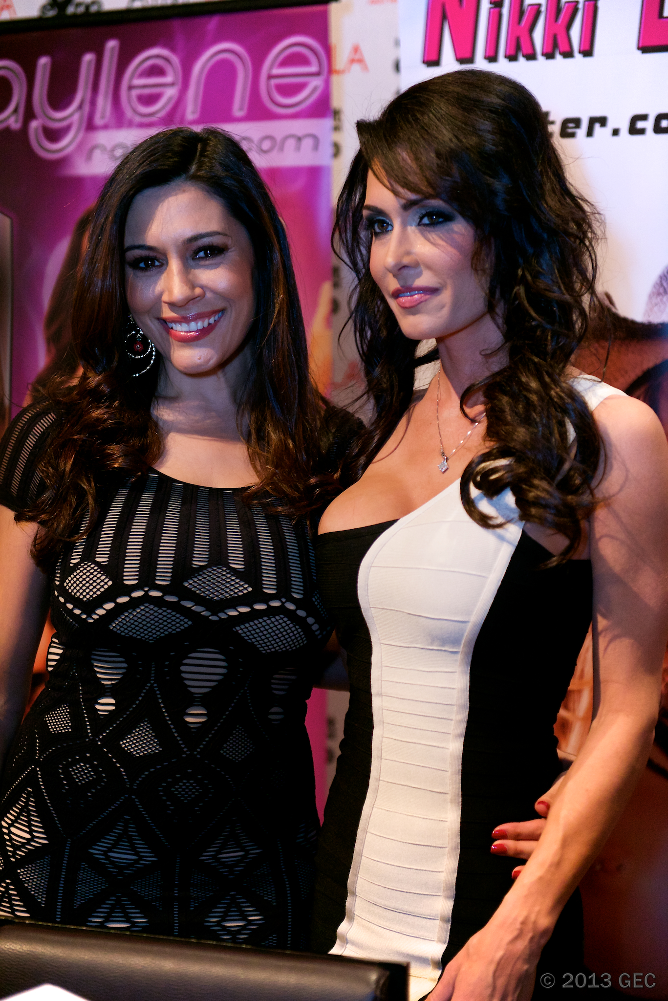 Raylene & Jessica Jaymes at the 2013 AVN Adult Entertainment Expo AEE at Hard Rock Hotel - Las Vegas. 2013 © GEC.